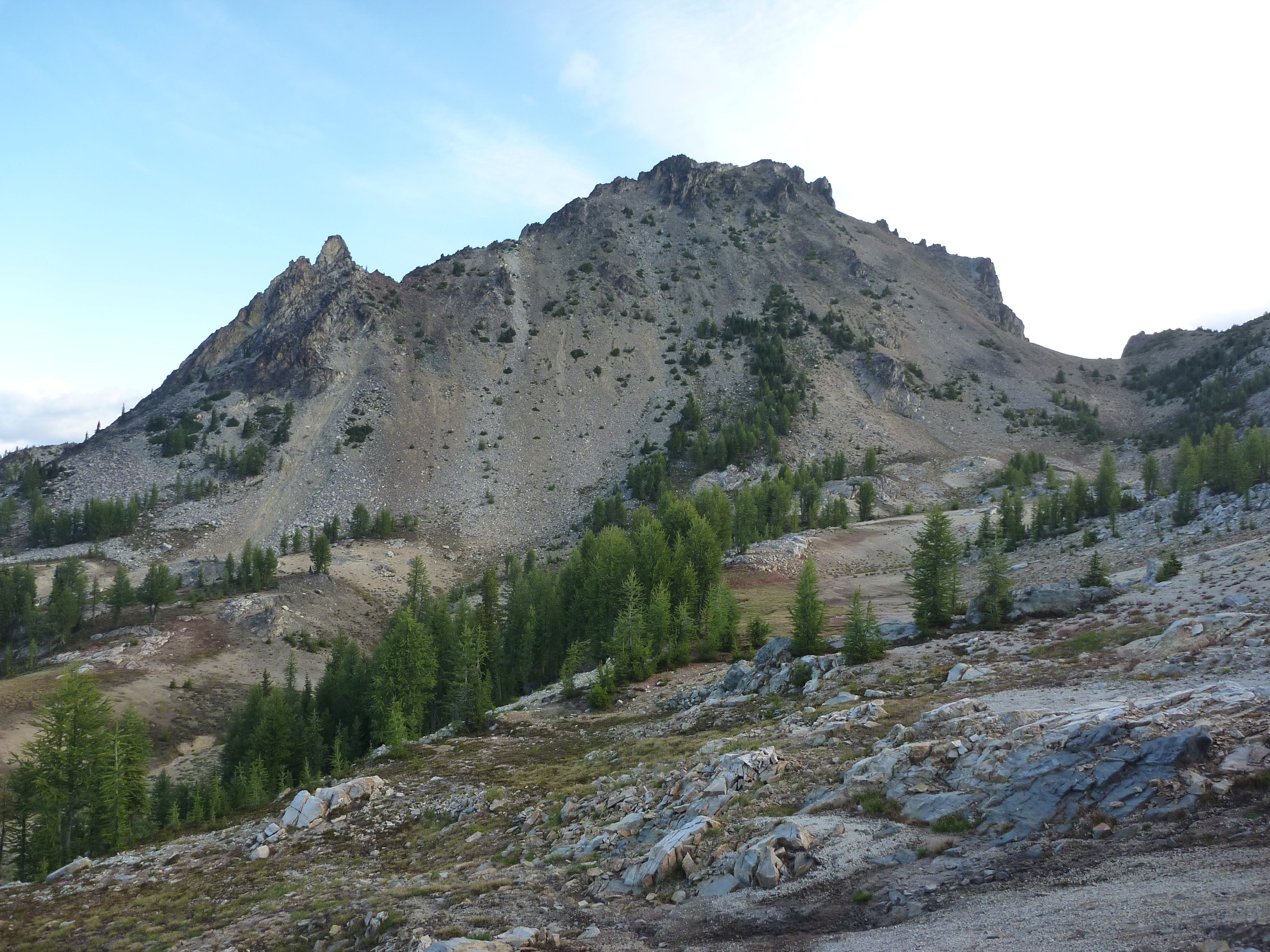 Pinnacle Mountain from the final approach meadow just over Borealis Pass